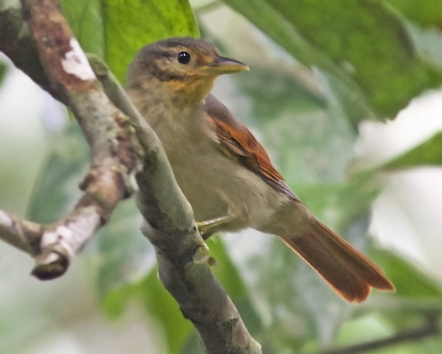 Chesnut-winged foliage-gleaner; Providencia, Sucumbios, Equador